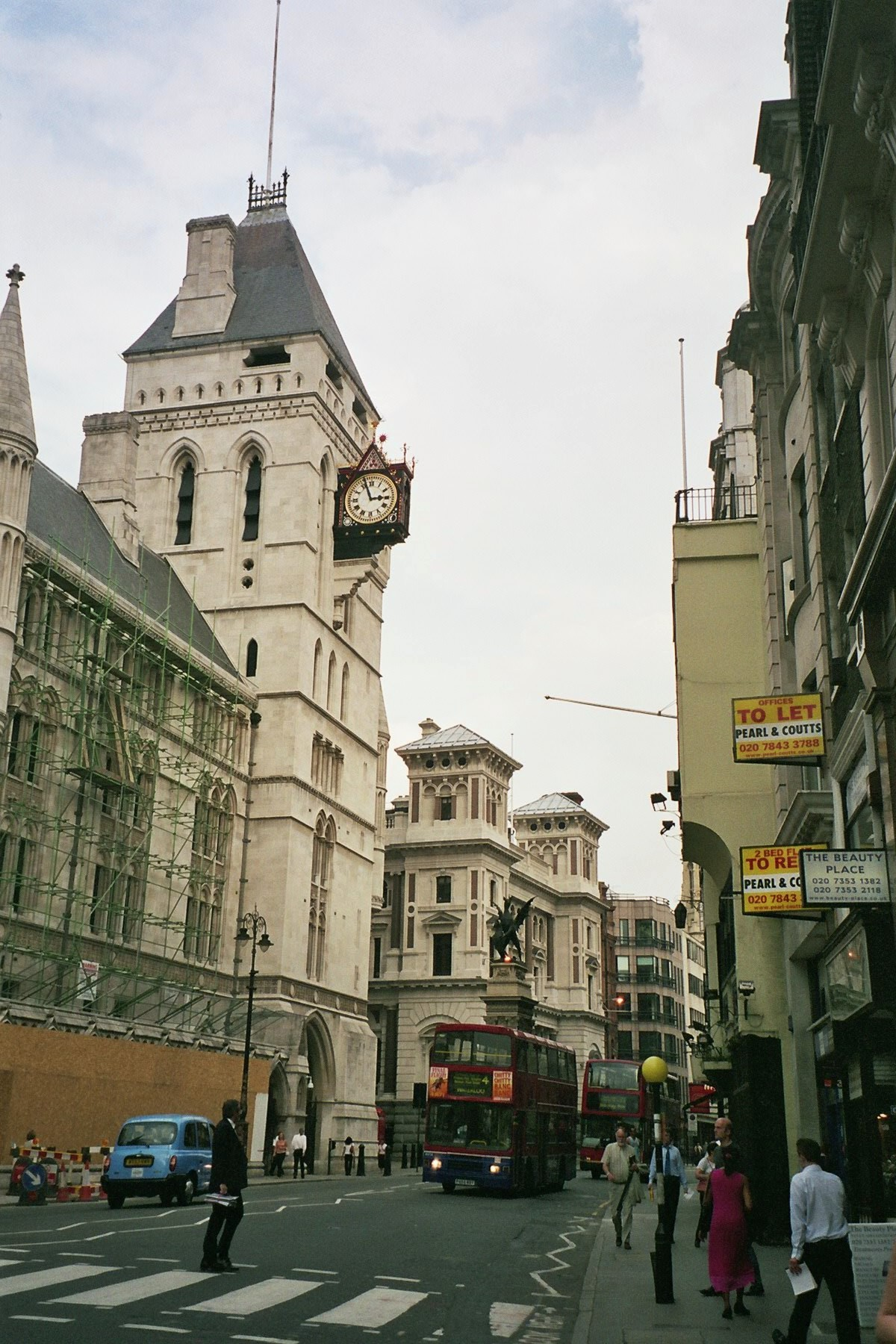 The Strand in London, looking east. The clock tower is part of the Royal Courts of Justice building. The statue is the Temple Bar griffin, marking the end of Fleet Street. A number 4 bus to Waterloo approaches.